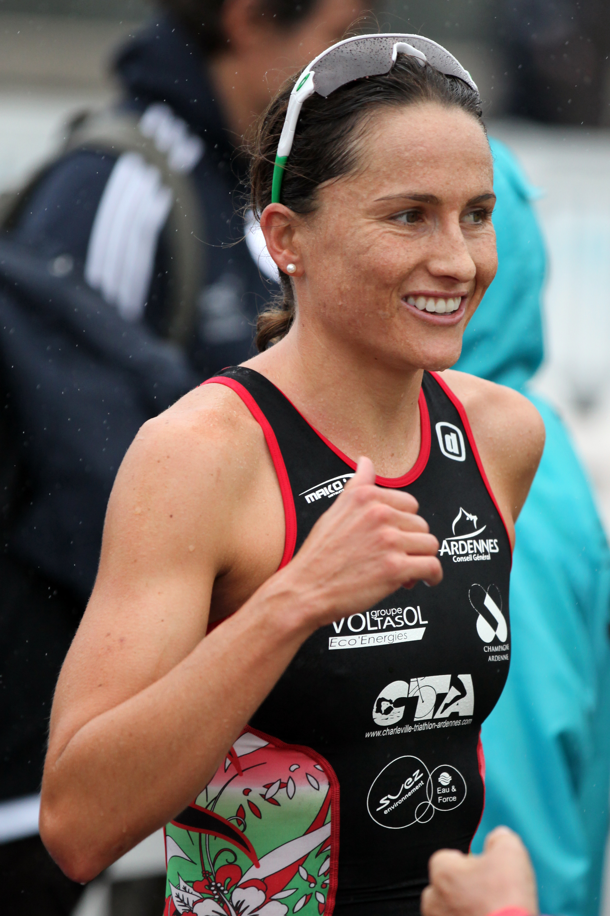 Emma Moffatt, gold medalist at the French Club Championship Series triathlon (Grand Prix de Triathlon Lyonnaise des Eaux) in Paris, 2011.